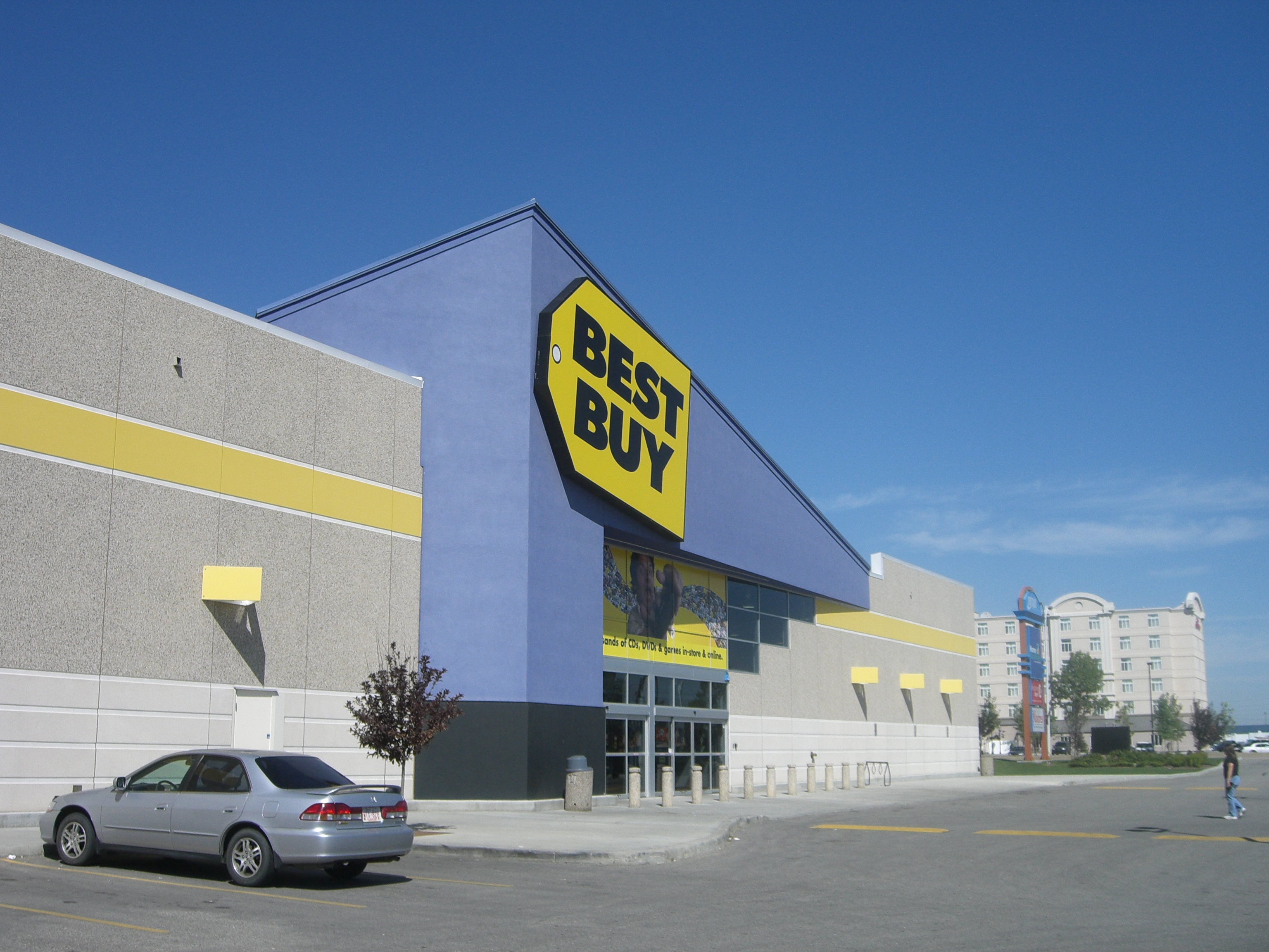 Myke Waddy, Photo take of Best Buy, near West Edmonton Mall, Edmonton, Alberta. August 14th 2006